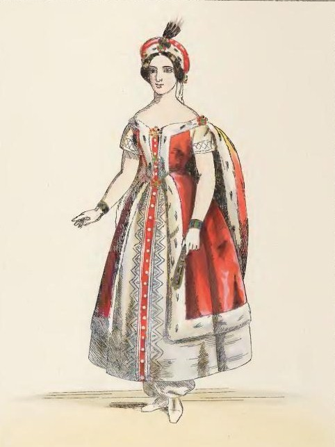 Costume of a Polish lady worn by the Countess of Brunnow, wife of the Russian ambassador, at Queen Victoria's Masked Ball (Bal Masque), 1842.